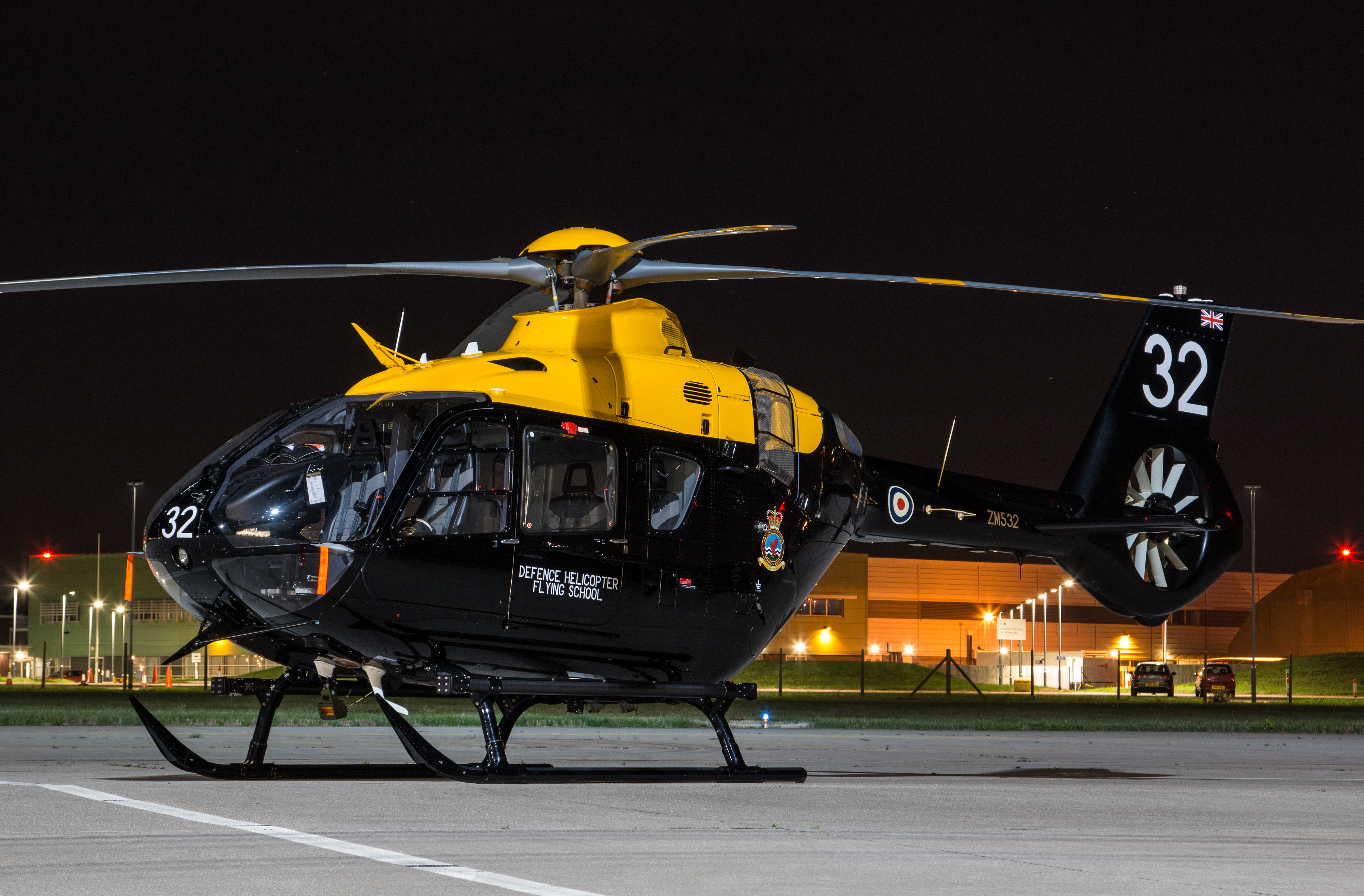 RAF Northolt Nightshoot XXV, London